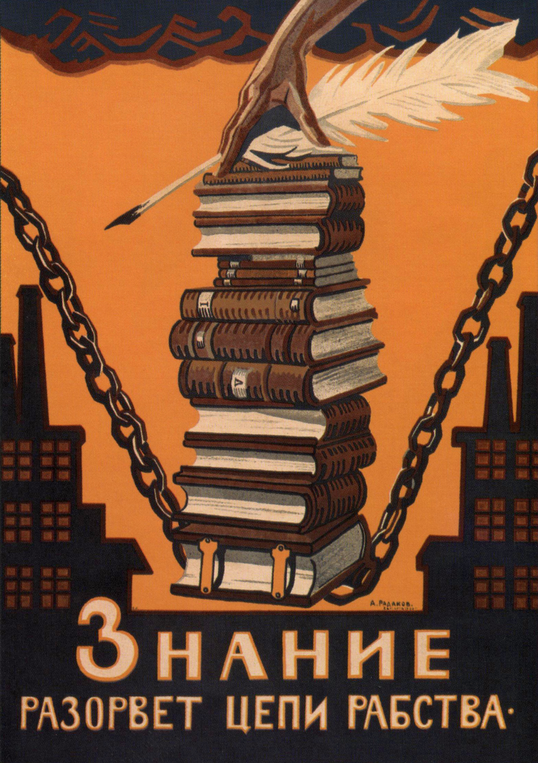 Znaniye razorvet tsepi rabstva [Knowledge will break the chains of slavery], a poster by Alexei Radakov (1872-1942). Published by GIZ, Petrograd, 1920. 90x60cm.